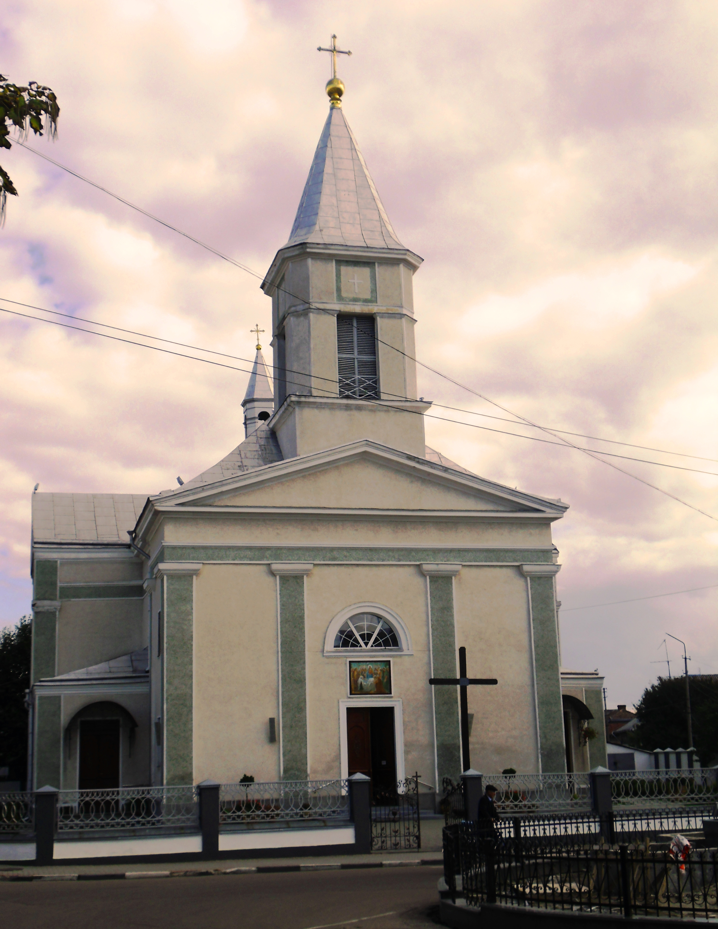 Stryj. Church of the Assumption of the Blessed Virgin Mary.